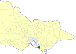 Location of the Shire of Bass within Victoria.